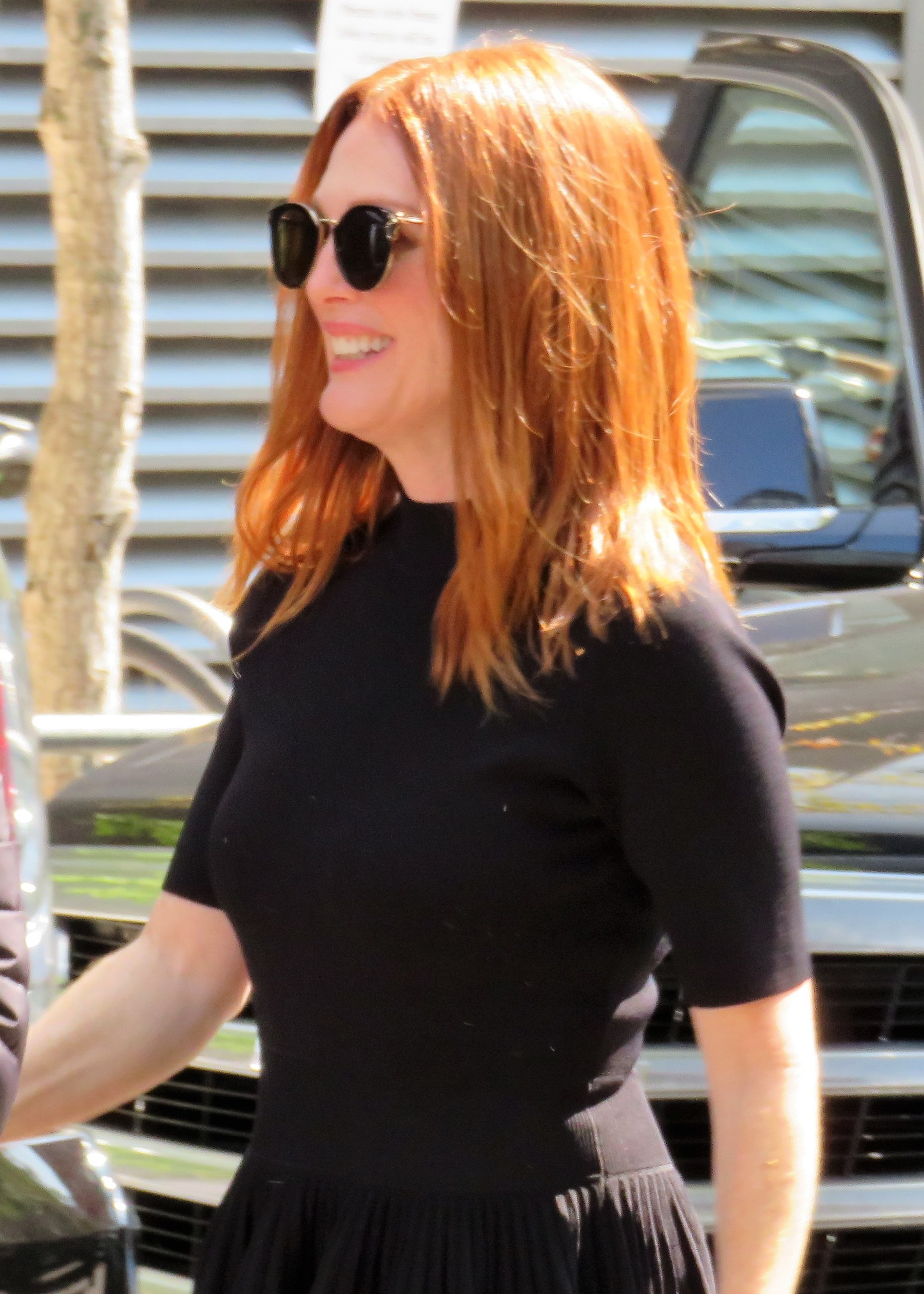 Julianne Moore at the press conference of Suburbicon, 2017 Toronto Film Festival